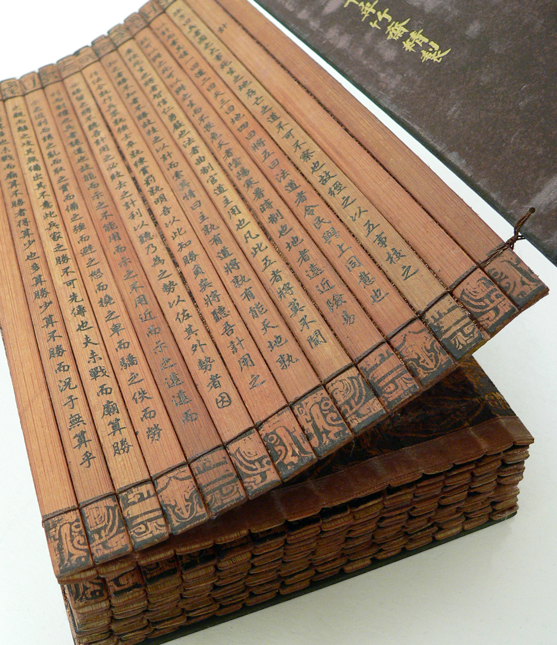 A Chinese bamboo book, open to display the binding and contents. This copy of The Art of War (on the cover, "孫子兵法") by Sun Tzu is part of a collection at the University of California, Riverside. The cover also reads "乾隆御書", meaning it was either commissioned or transcribed by the Qianlong Emperor.